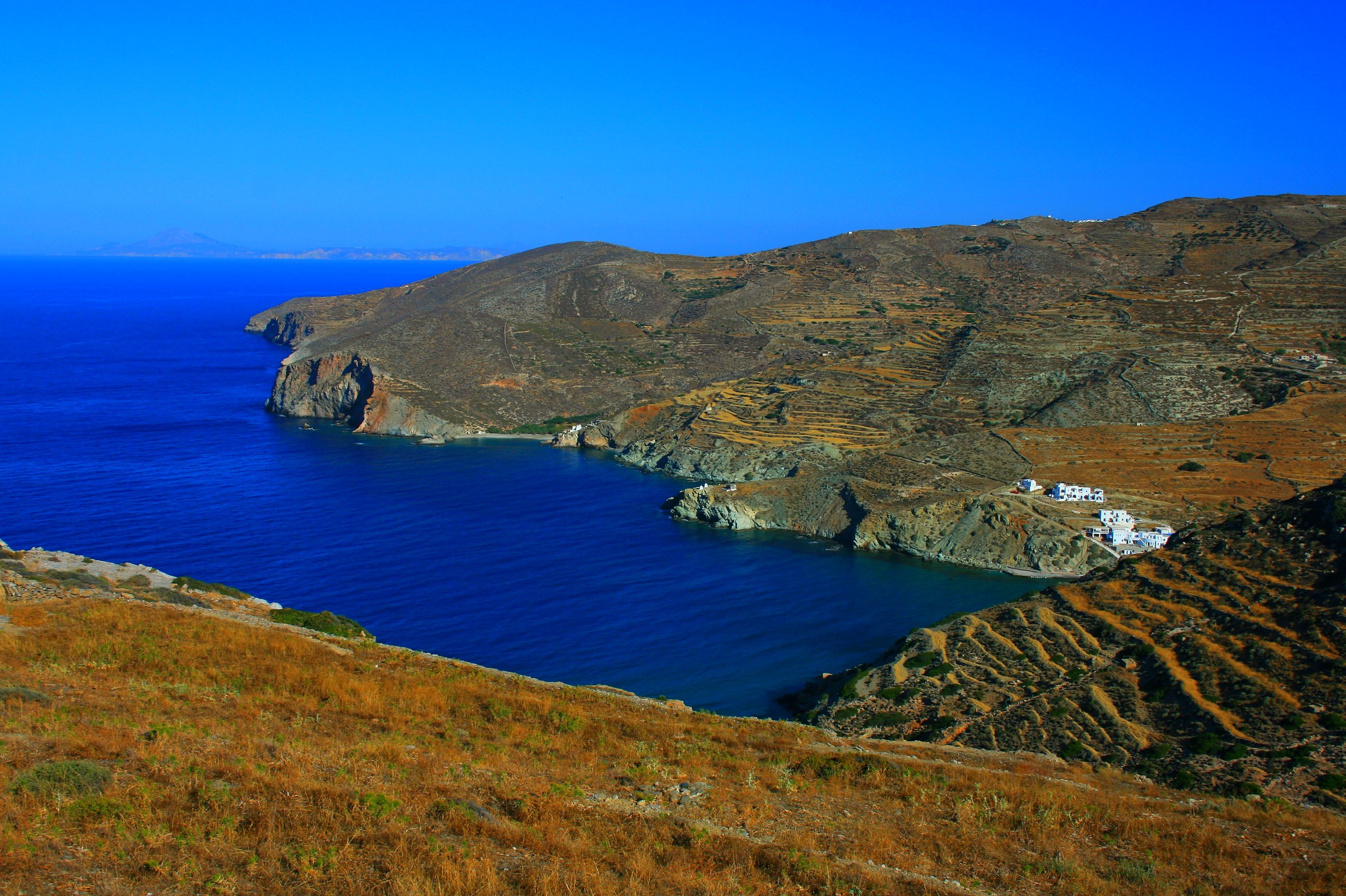 View of Angali, Folegandros.